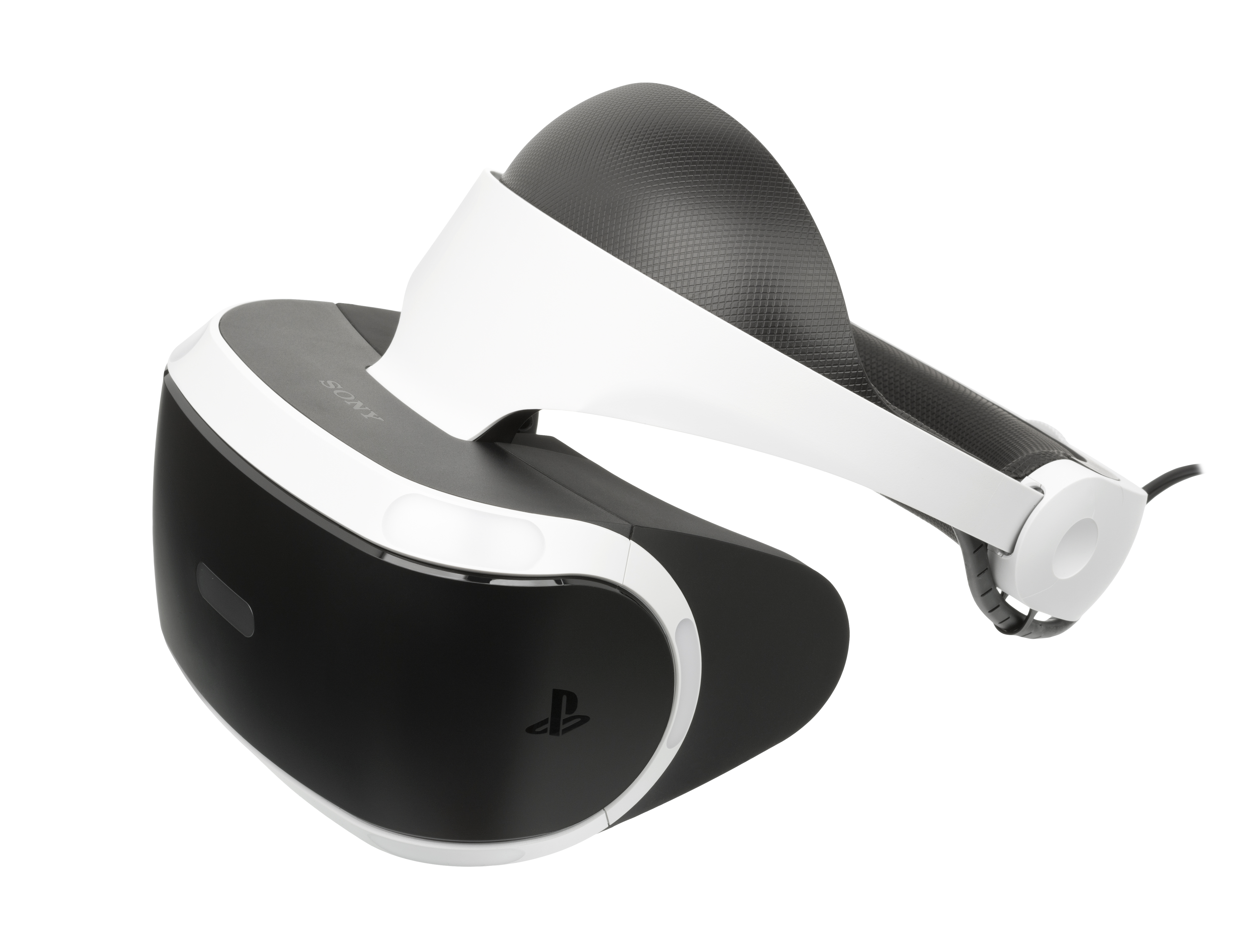 The PlayStation VR, an official virtual reality head-mounted display for the Sony PlayStation 4 video game console. This is a first-generation model, which had a slightly different design that incorporated the headphone plug on the power/AV cable.